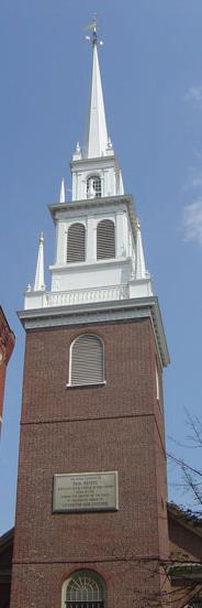 Steeple of the Old North Church, Boston, Massachusetts Photo taken by me in August 2006 with a Sony Cybershot digital camera. MamaGeek (talk/contrib) 12:02, 25 August 2006 (UTC)